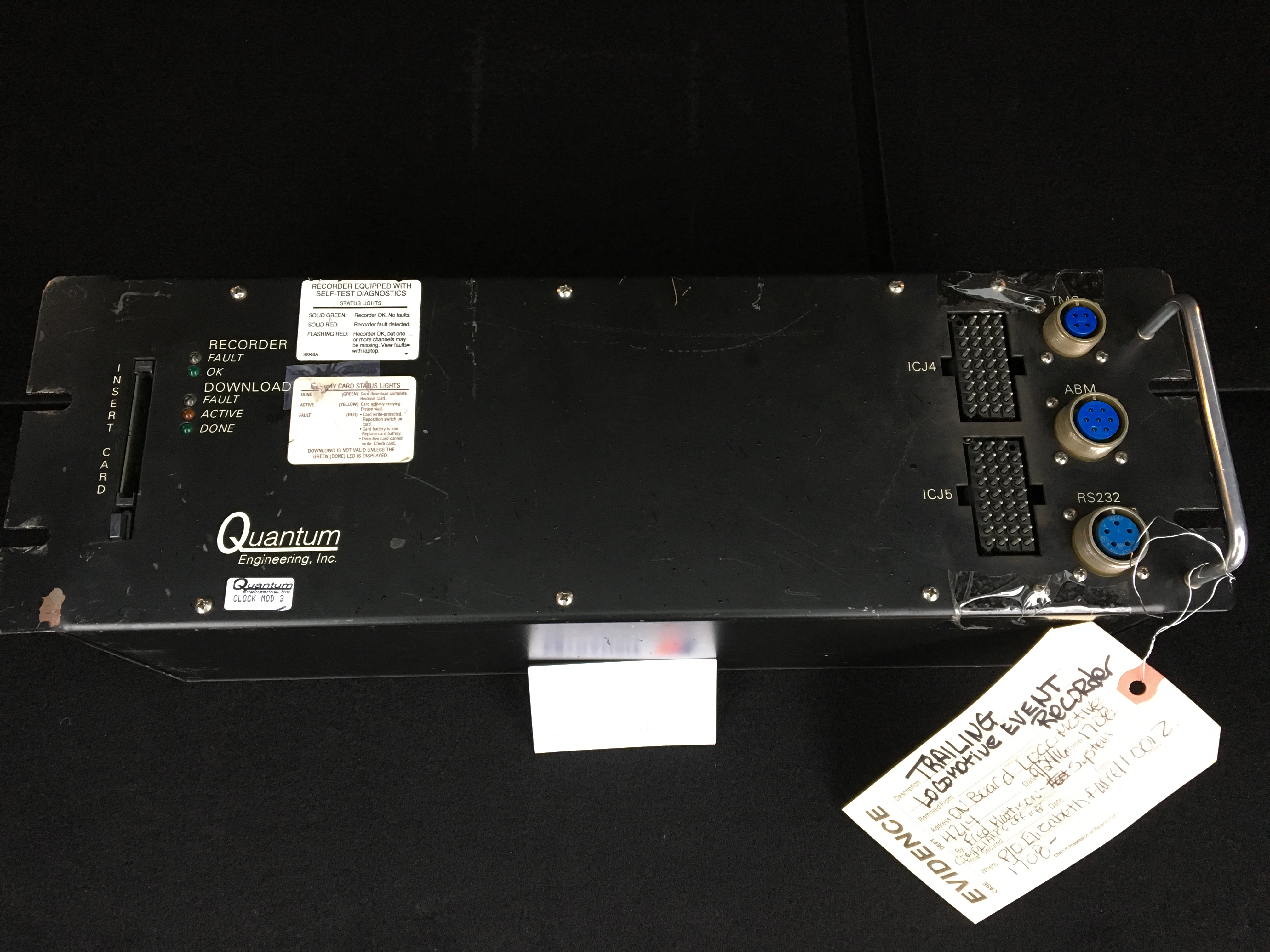 "Black box" from trailing locomotive #4214 after the 2016 Hoboken crash